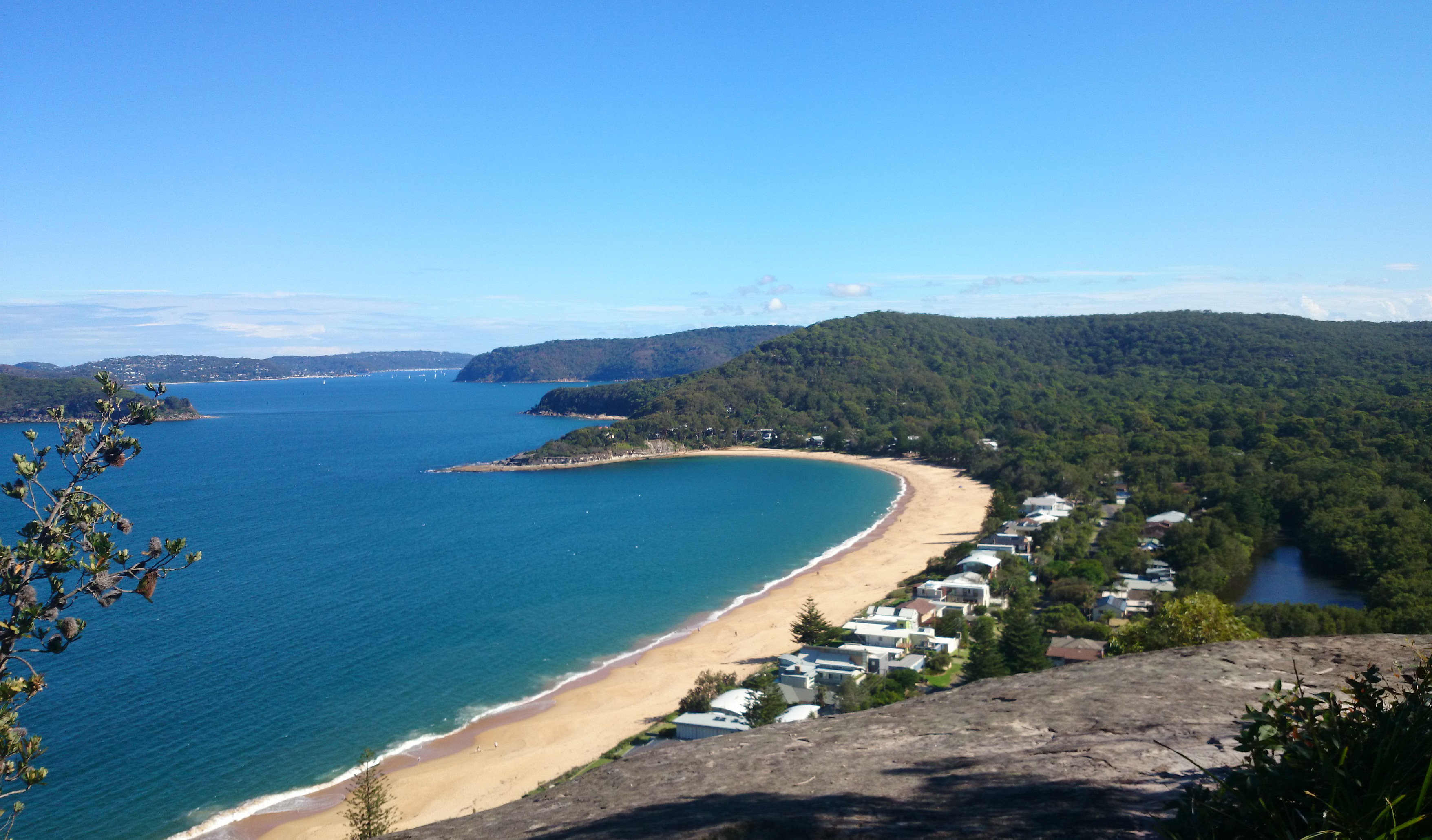 Mount Ettalong Lookout